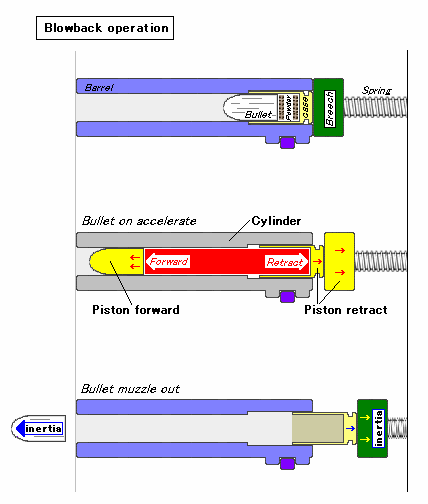 Simplified & comparison diagram of Simple Blowback and Blowforward operation.